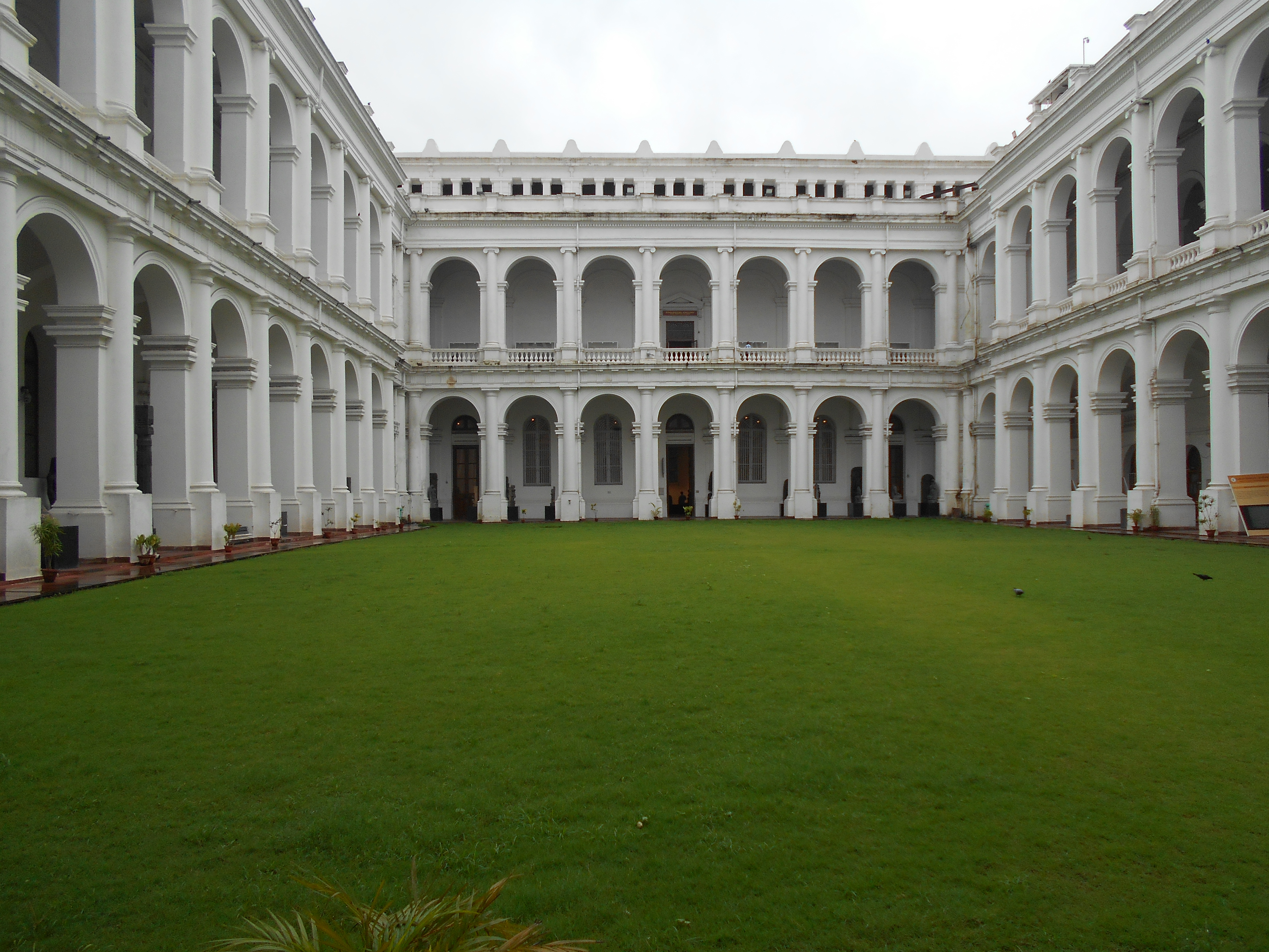 indian museum courtyard